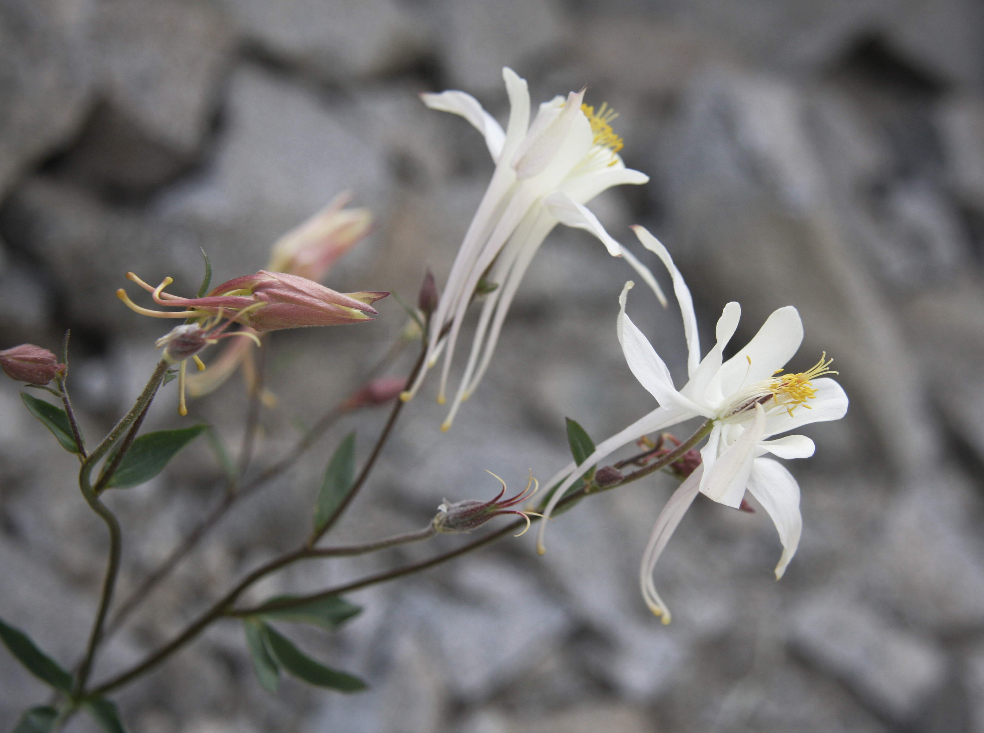 Closeup of white Coville's columbine flowers (Aquilegia pubescens). In rocks at 11,000ft (typical habitat for this species) just west of Morgan Pass, John Muir Wilderness, Sierra Nevada wilderness, California.